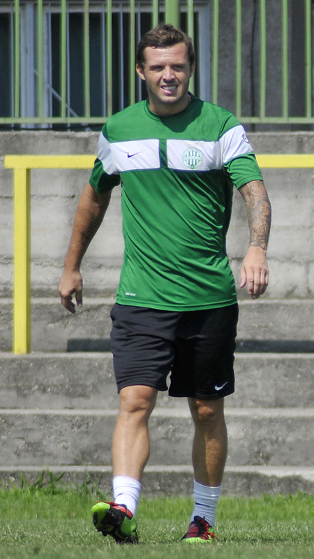 Sam Stockley, English association football player.